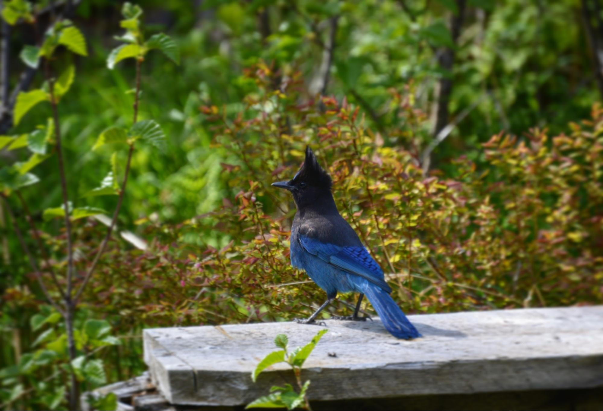 Stellar’s Jay perched on a piece of wood, Alaska Maritime National Wildlife Refuge